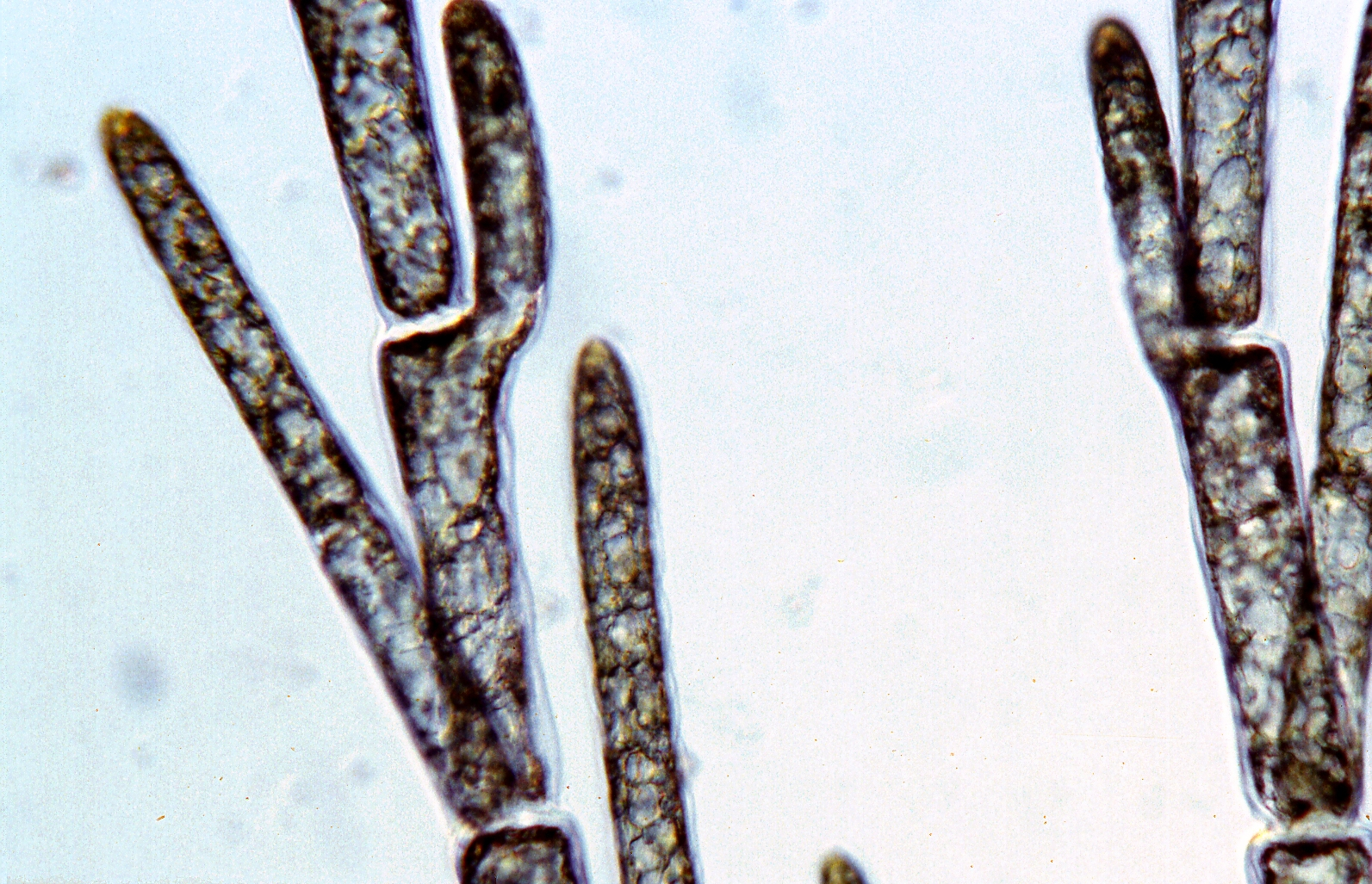 Ulvophyceae, Order: Cladophorales, Genus:Cladophora